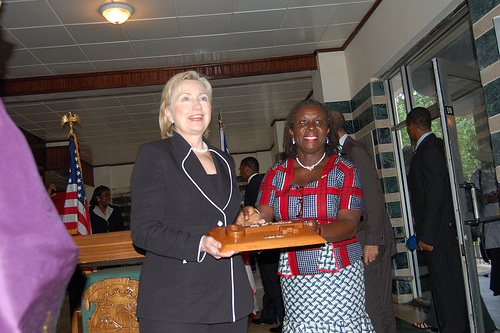 Hilary Clinton in Liberia: Sec. Clinton accepts a key to the City from Mary Broh